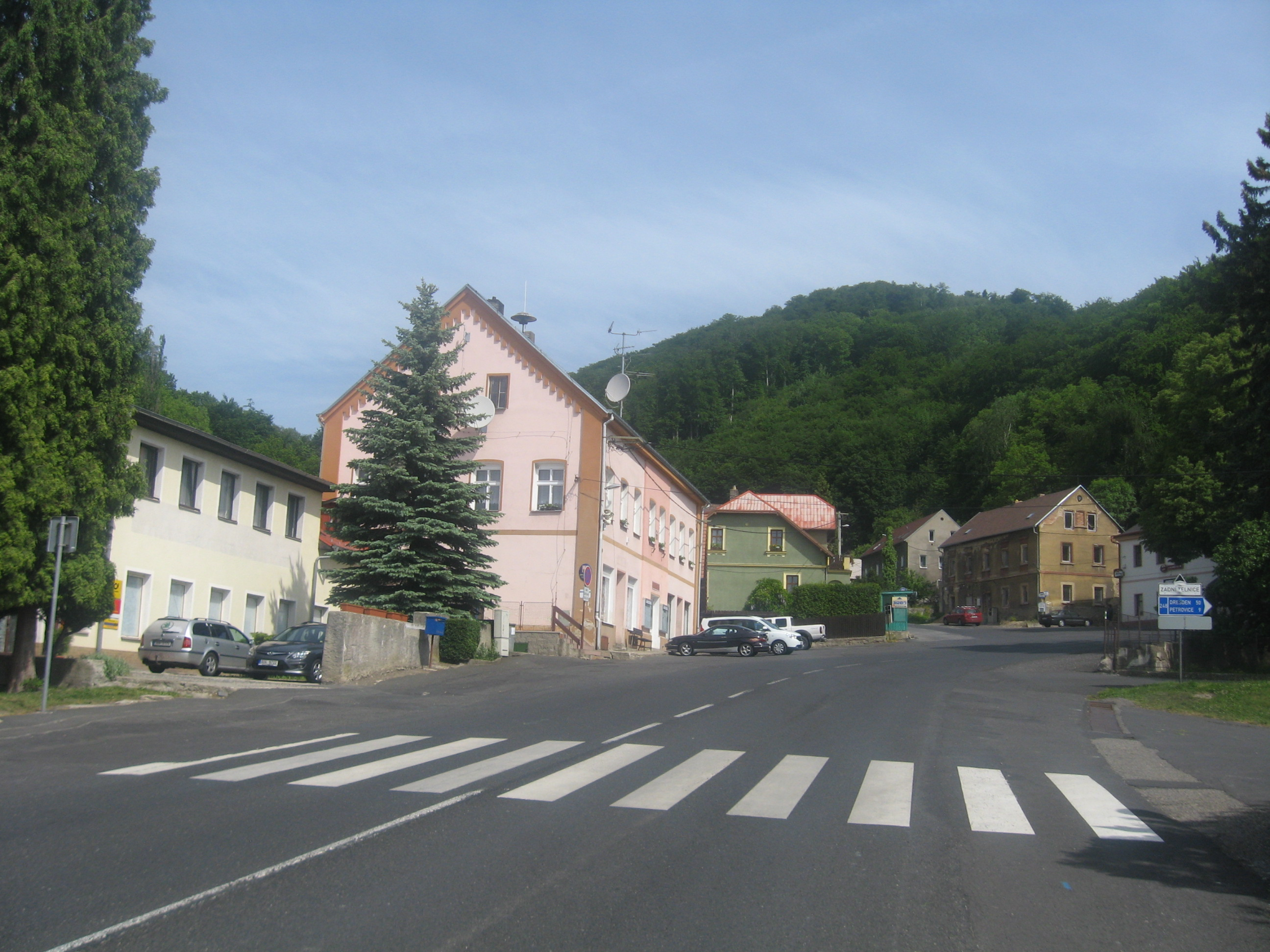 Village square in Telnice